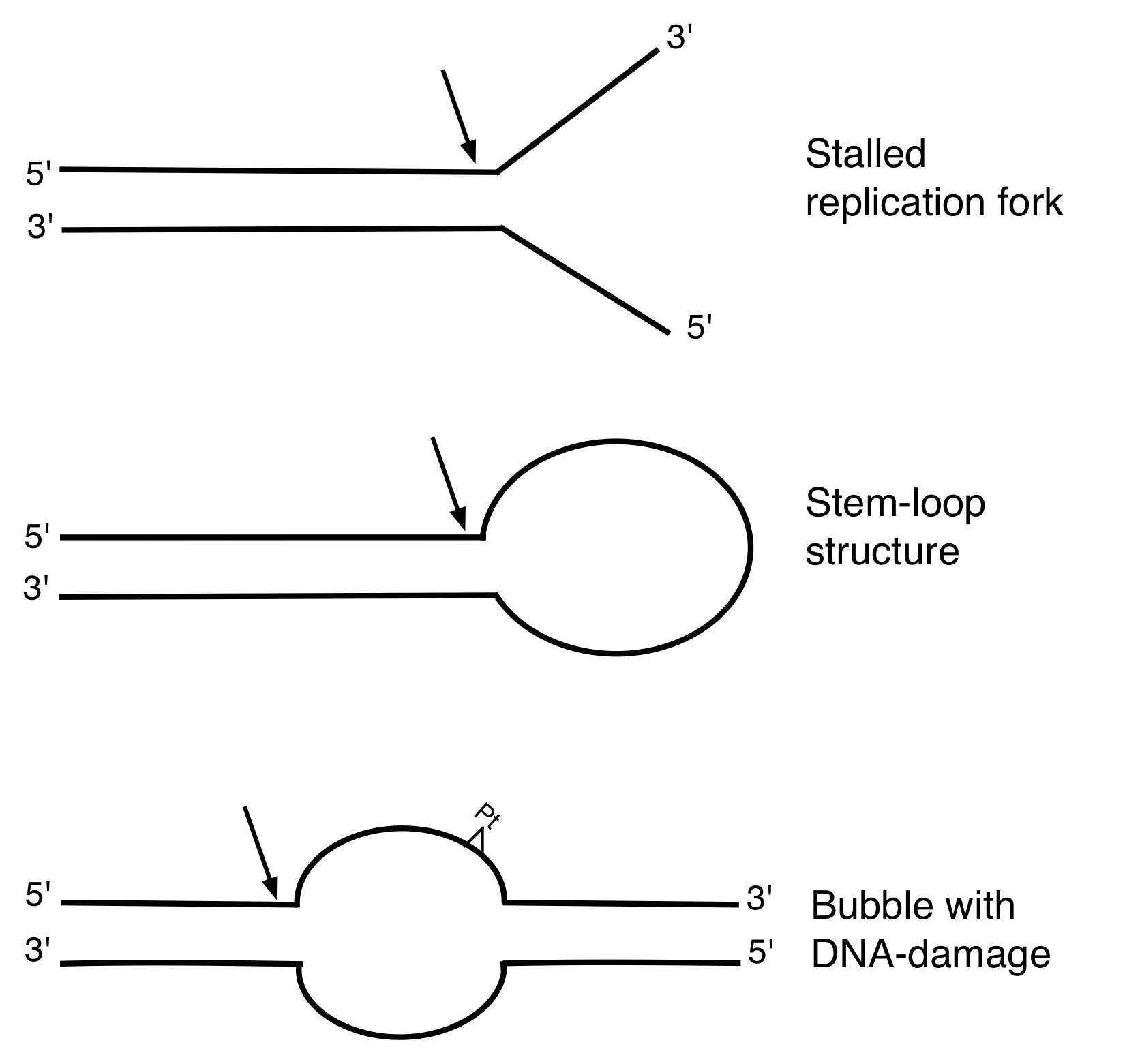 The substrates for ERCC1-XPF nuclease. The arrows show the sites of the nuclease activity on these substrates.